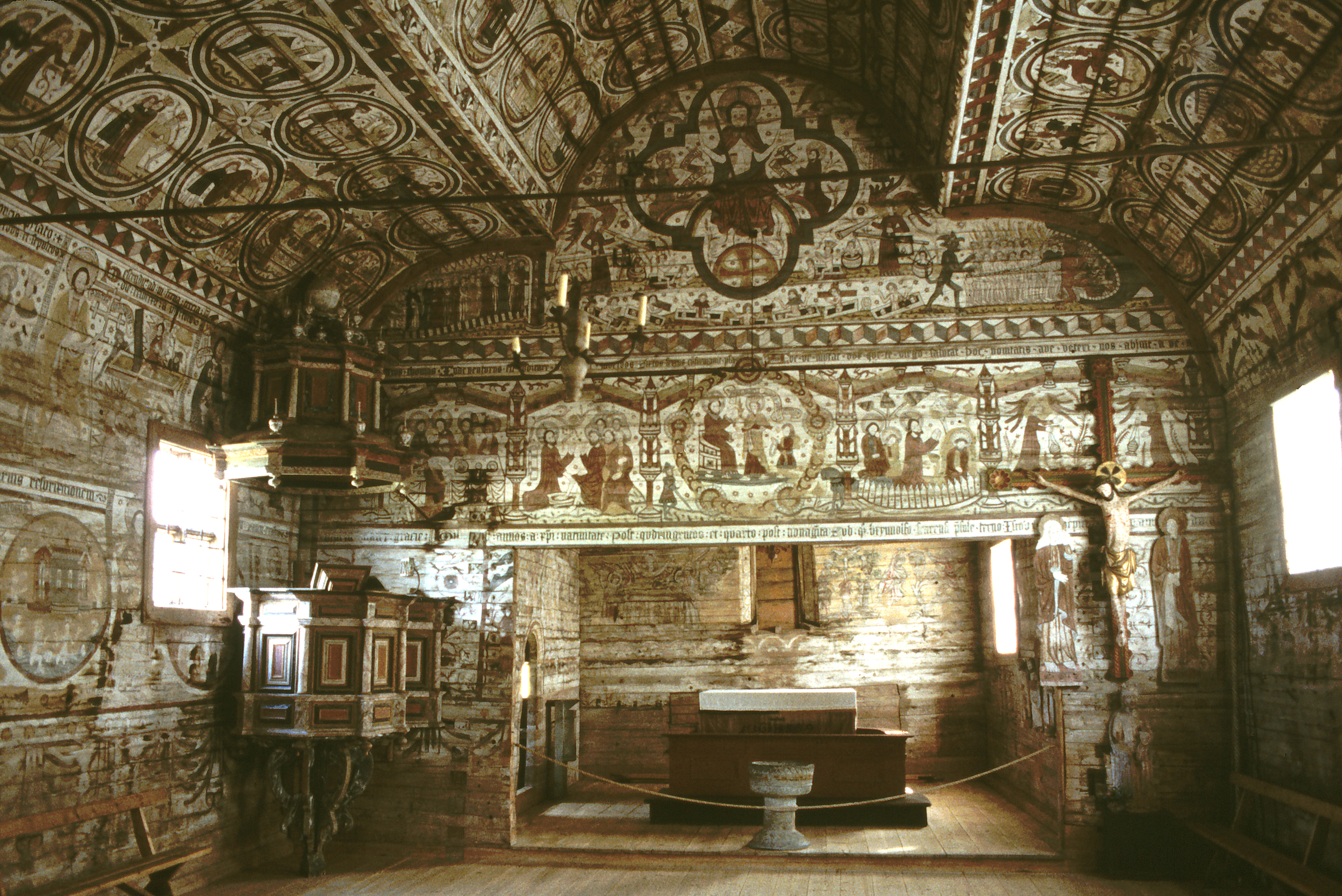 Painting from 1323 in the church of South Råda, Sweden, now destroyed by fire.